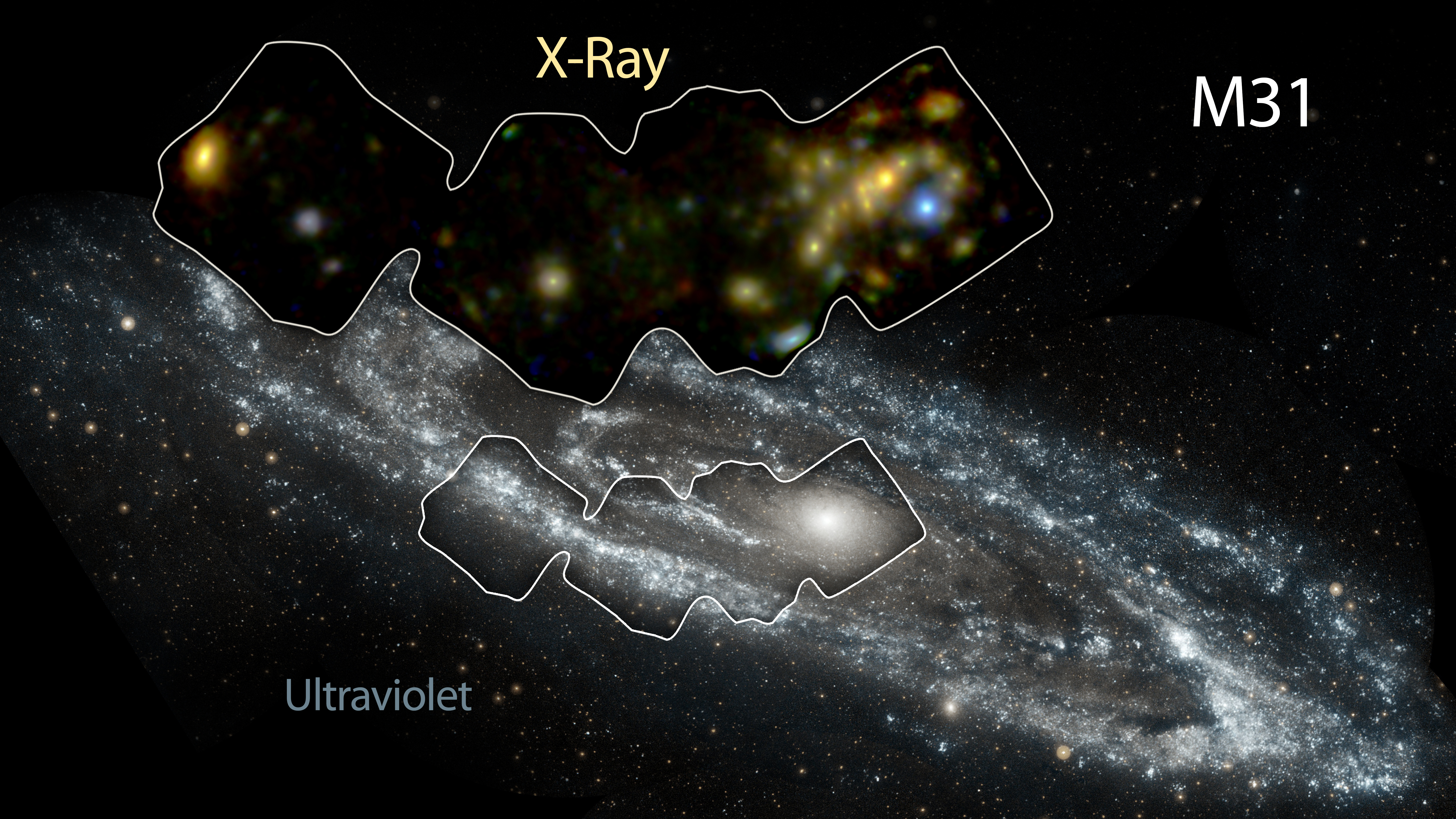 NASA's Nuclear Spectroscope Telescope Array, or NuSTAR, has imaged a swath of the Andromeda galaxy -- the nearest large galaxy to our own Milky Way galaxy. NuSTAR's view (inset) shows high-energy X-rays coming mostly from X-ray binaries, which are pairs of stars in which one "dead" member feeds off its companion. The dead member of the pair is either a black hole or neutron star. NuSTAR can pick up even the faintest of these objects, providing a better understanding of their population, as a whole, in Andromeda. The findings ultimately help astronomers gather clues about similar objects in the very distant universe. The background image of Andromeda was taken by NASA's Galaxy Evolution Explorer in ultraviolet light. Andromeda is a spiral galaxy like our Milky Way but larger in size. It lies 2.5 million light-years away in the Andromeda constellation.